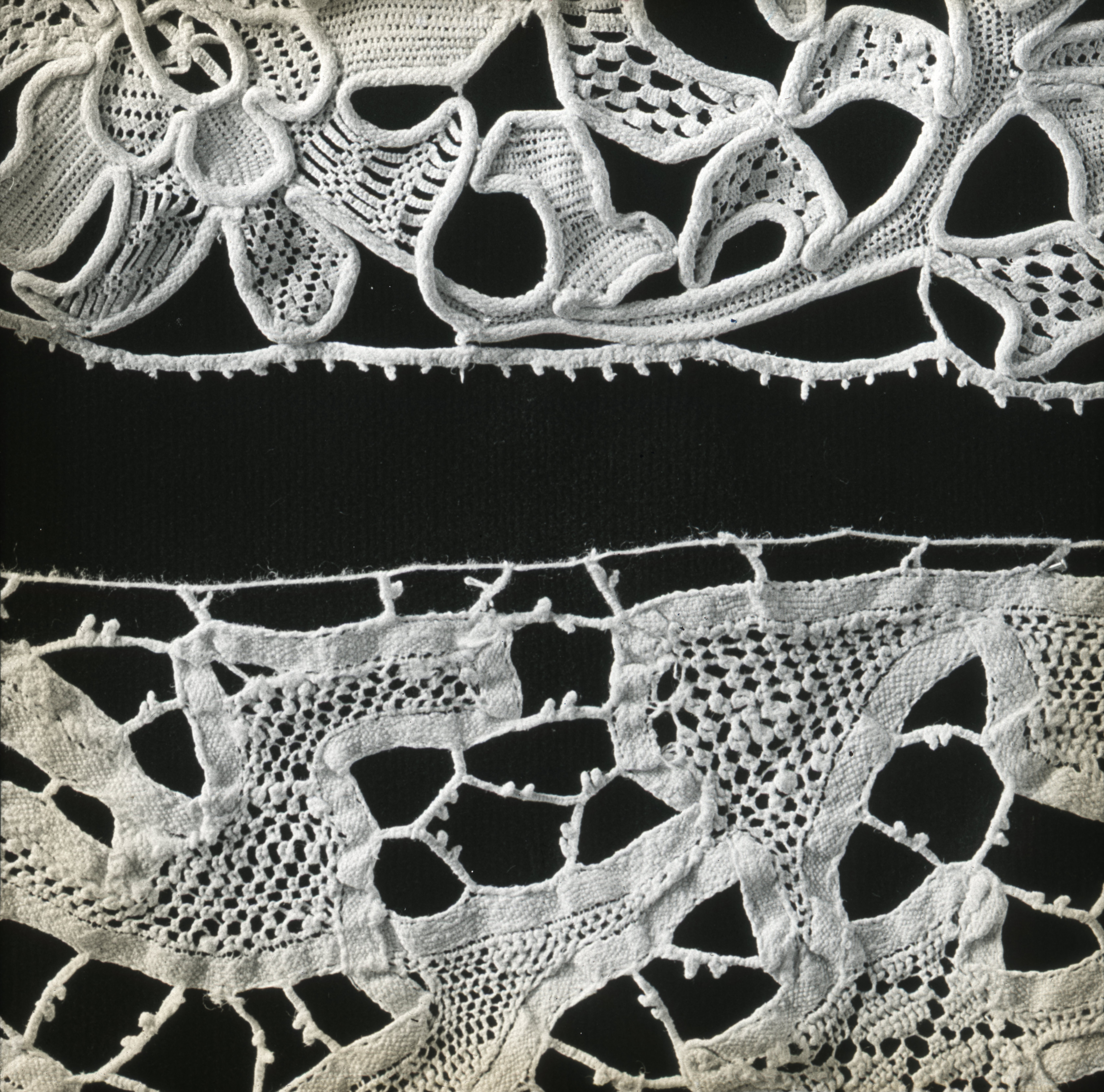 Details point de Venise, 17th century